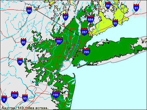 This image comes from the U.S. Census Bureau. It shows in dark green the urban area of New York City.